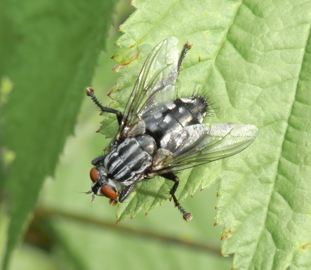 Marbled Grey Flesh Fly (Sarcophaga sp).